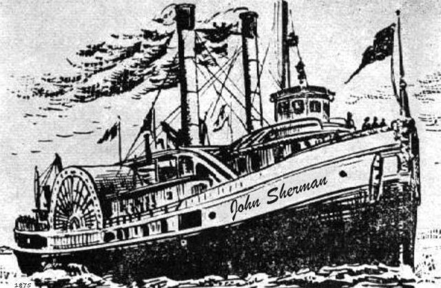 John Sherman side-wheeler 1875 sketch